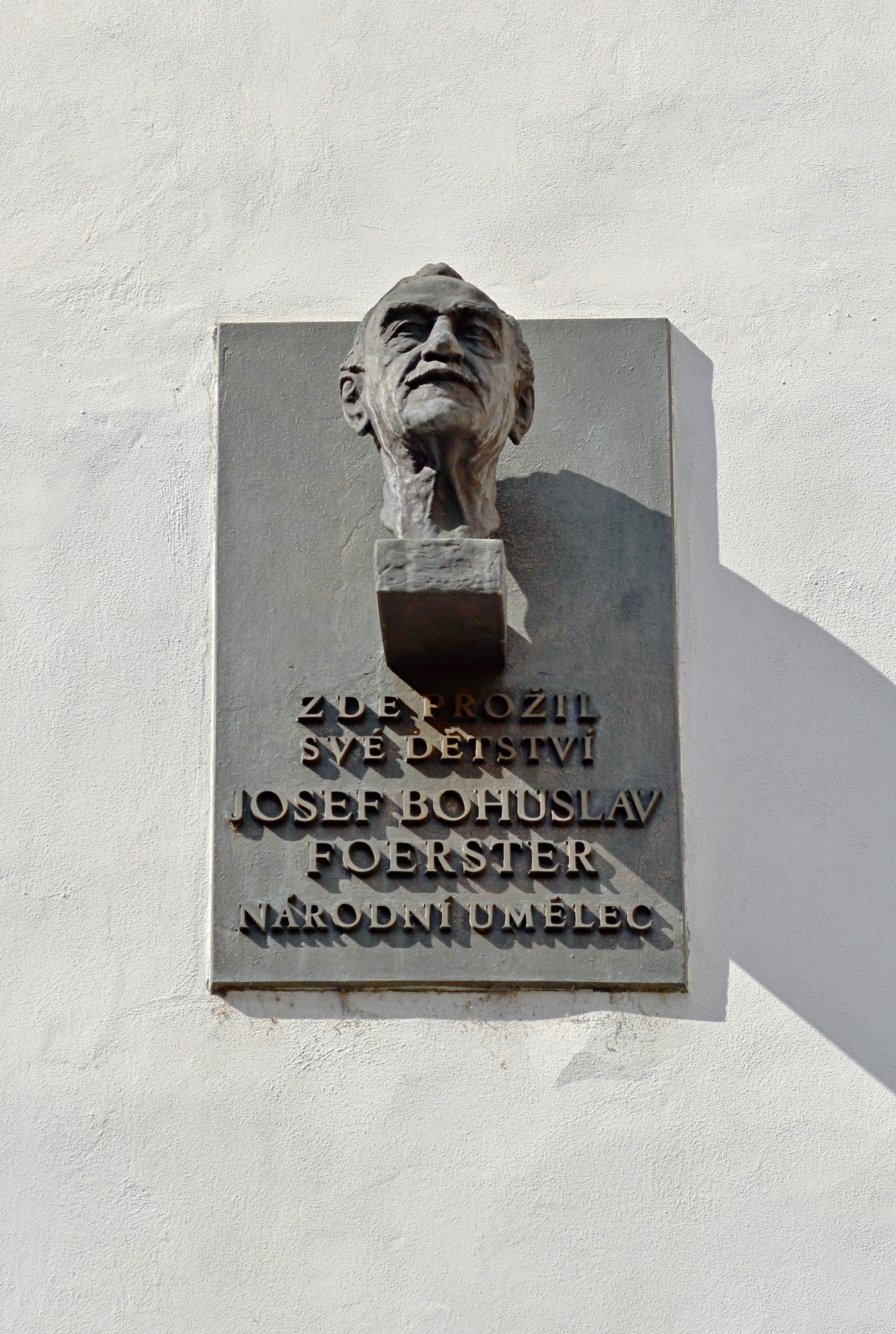 A commemorative plaque of Josef Bohuslav Foerster. House known as "U Hrubšů", a cultural monument. Pštrossova 201/19, Nové Město, Prague 1, Czech Republic.